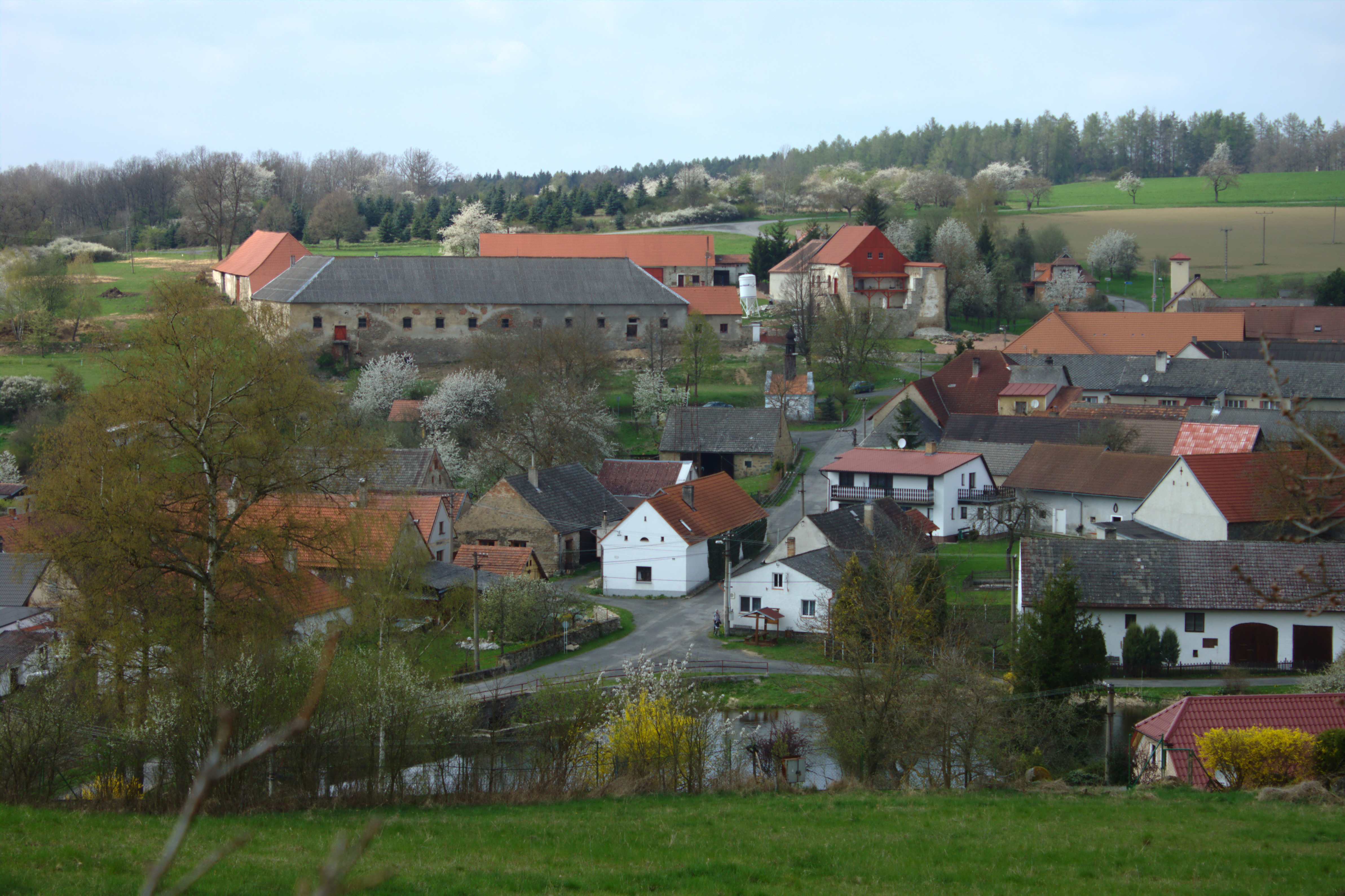 View of the Neprochovy village from SE, Plzeň Region, CZ